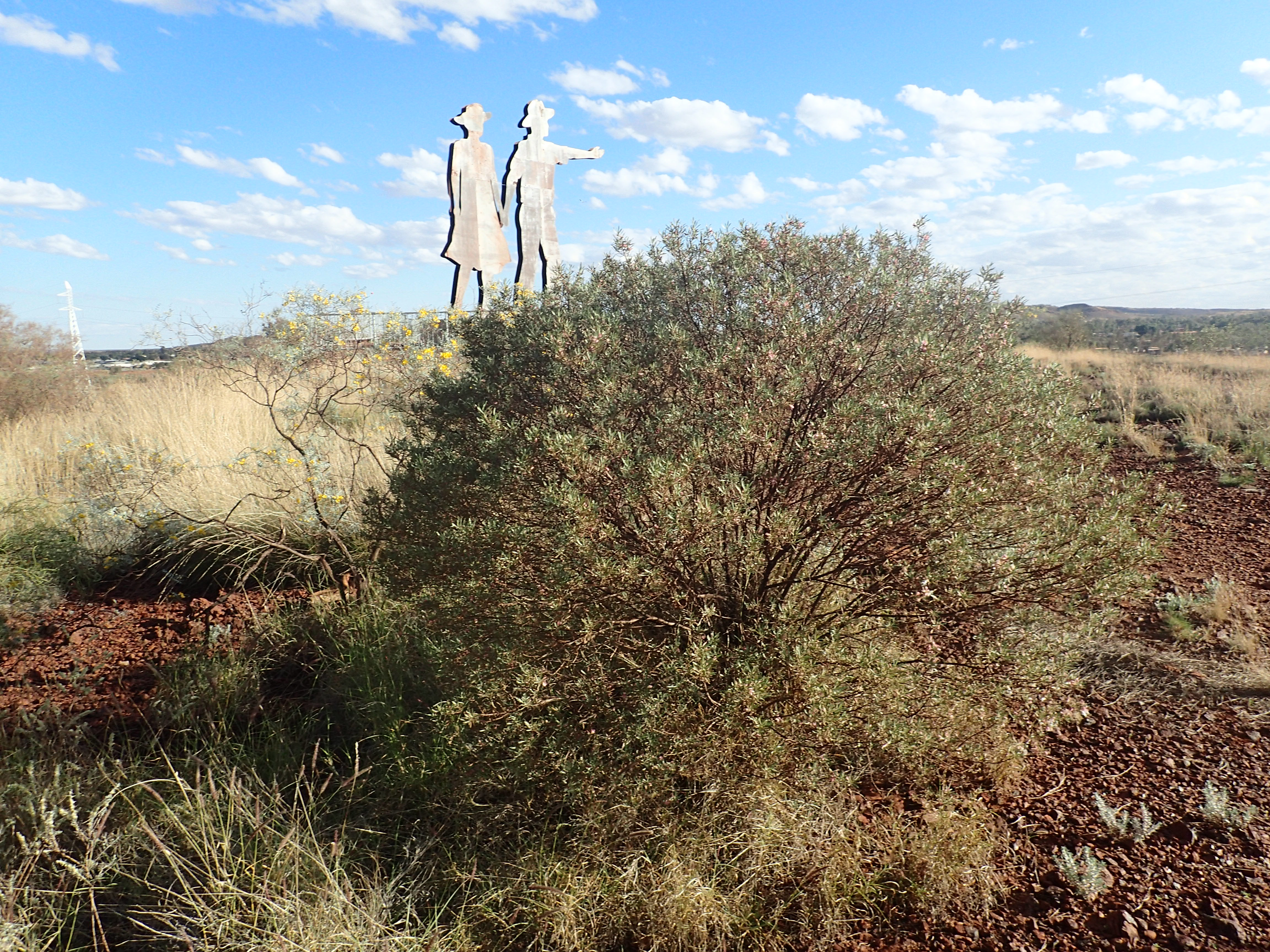 Eremophila platycalyx pardalota growing at the Hilditch lookout near Newman